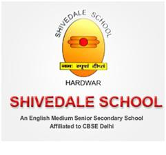 Shivedale School Logo